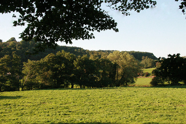 Heighley Castle. The castle was built as a hilltop fortress by Henry de Audley in 1233. It was ordered to be demolished by Parliament in the 1640s to prevent it being used by the Royalists.